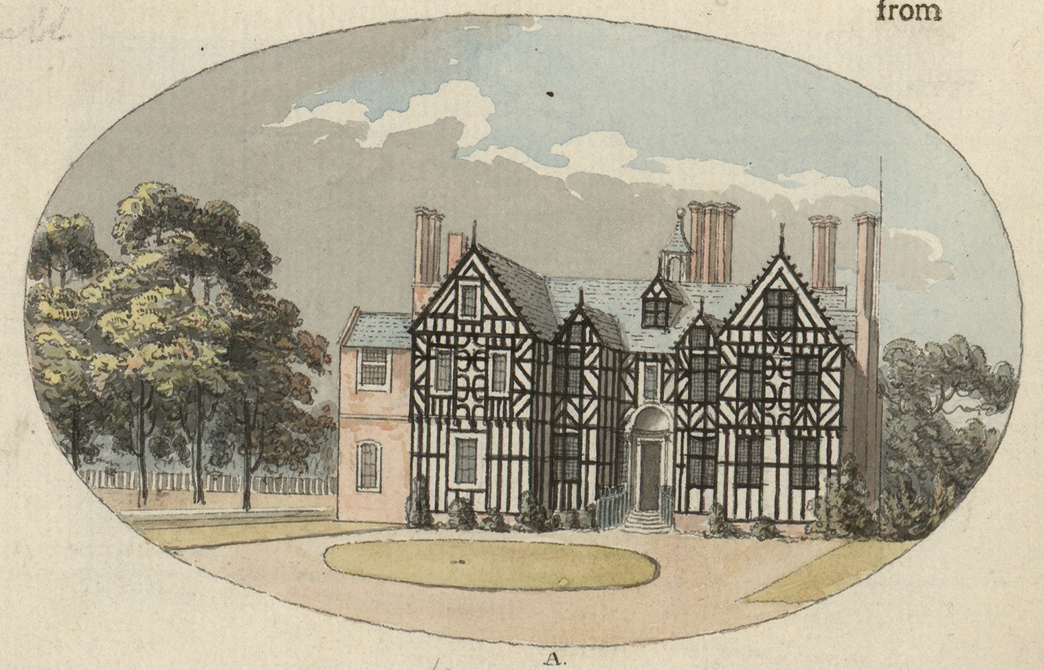 An image from a set of 8 extra-illustrated volumes of A tour in Wales by Thomas Pennant (1726-1798) that chronicle the three journeys he made through Wales between 1773 and 1776. These volumes are unique because they were compiled for Pennant's own library at Downing. This edition was produced in 1781. The volumes include a number of original drawings by Moses Griffiths, Ingleby and other well known artists of the period. Thomas Pennant (1726-1798)